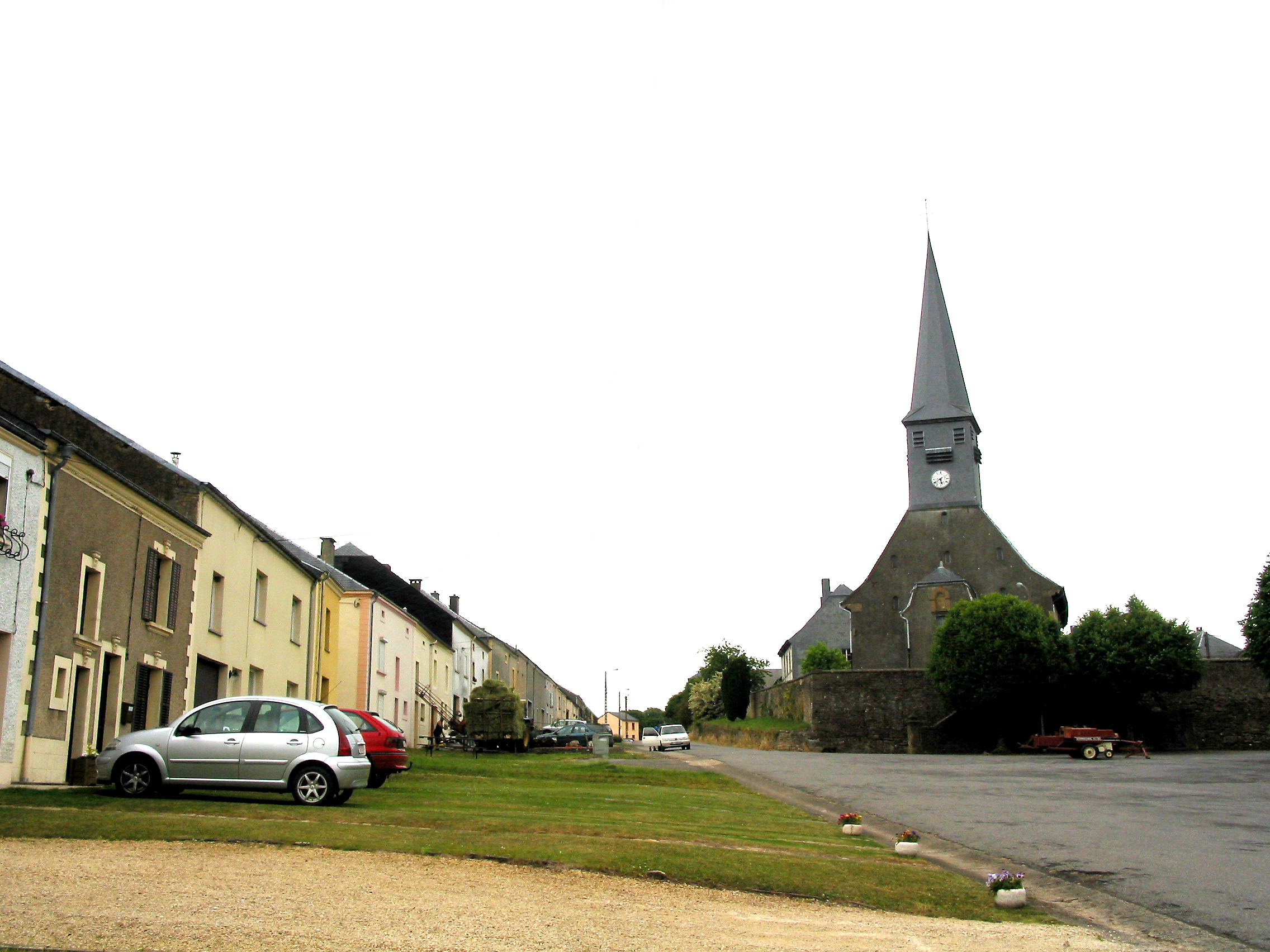 Gérouville (Belgium), the neighbourhood of Saint Andrew's church.